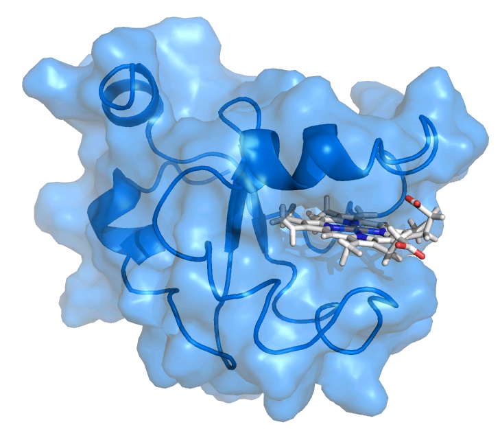 NMR solution structure of rat cytochrome b5 (PDB: 1JEX).